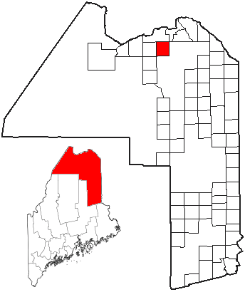 Adapted from U.S. Census Bureau maps (American FactFinder) and Wikipedia's ME county maps by Bumm13.